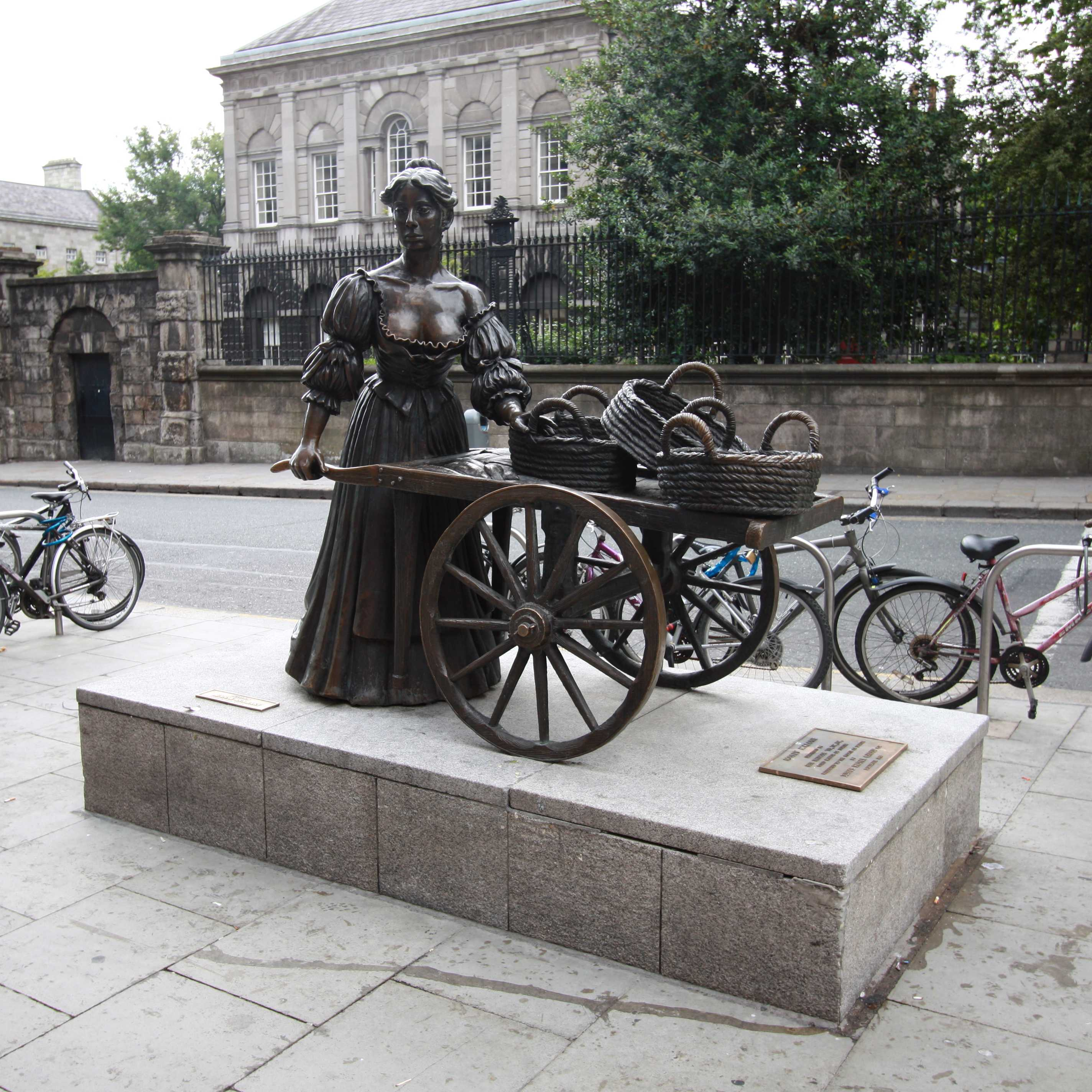 Molly Malone statue by Jeanne Rynhart in Dublin